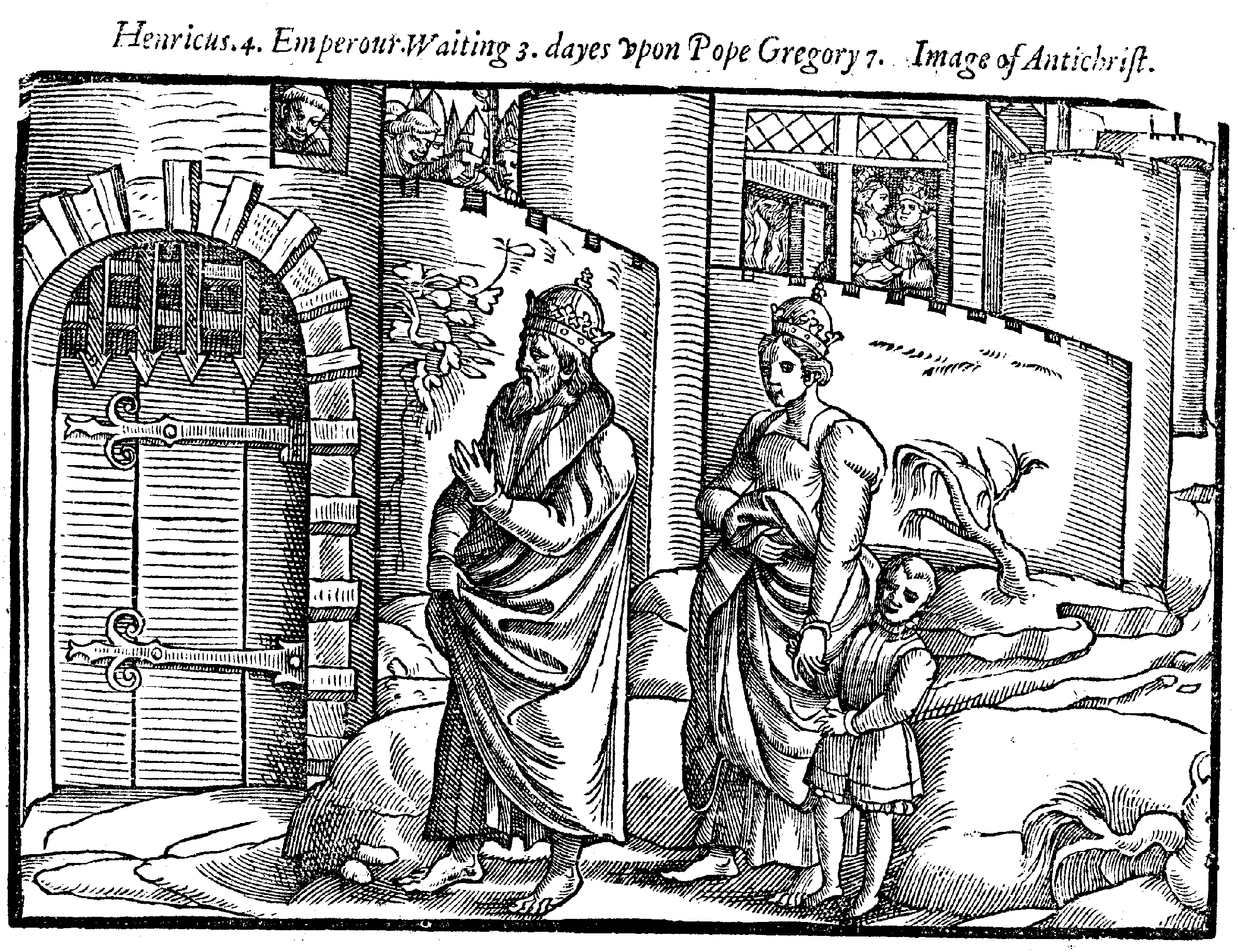 Emperor Henry IV waiting three days upon Pope Gregory VII.